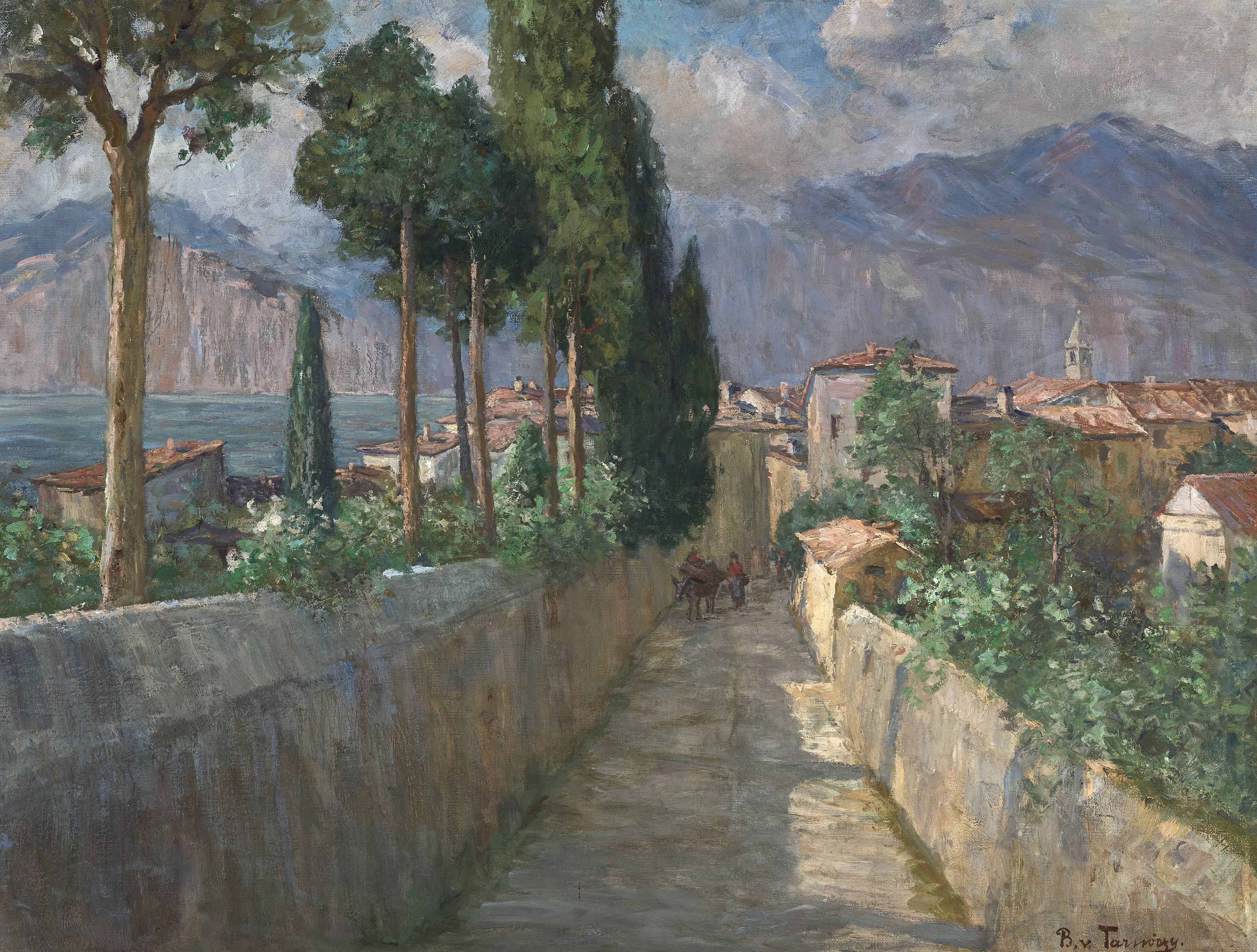 Lane in Malcesine